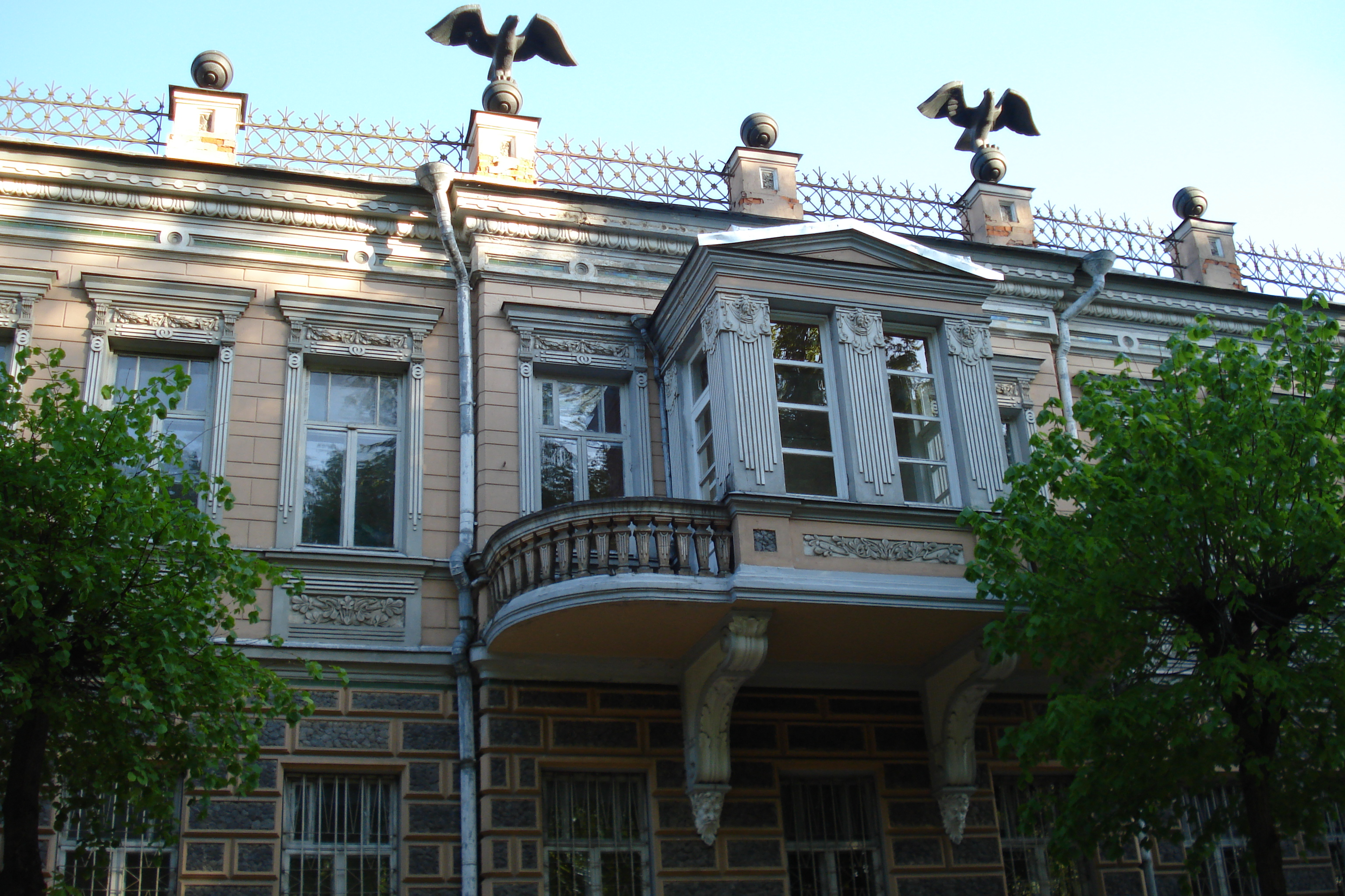 Daugavpils Local History and Arts Museum. Art nouveau building of 1883 at 8 Rigas Street